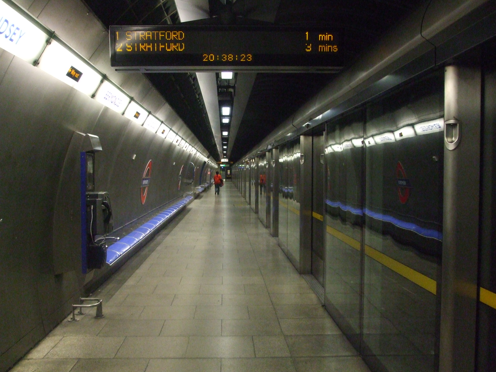 Bermondsey tube station eastbound platform looking west. Note platform edge doors.